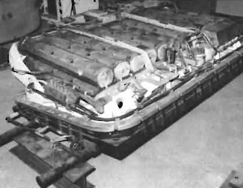 Autoloader magazine of the MBT-70 tank (Patton museum)